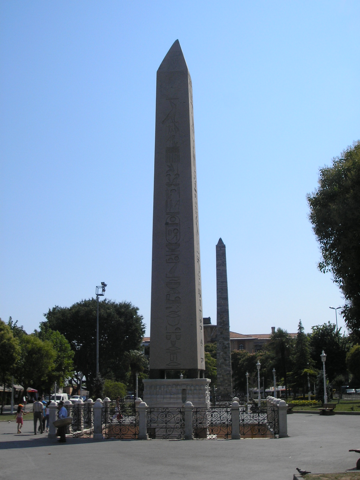 View of the Hippodrome of Constantinople, seen from the Obelisk of Thutmose III.